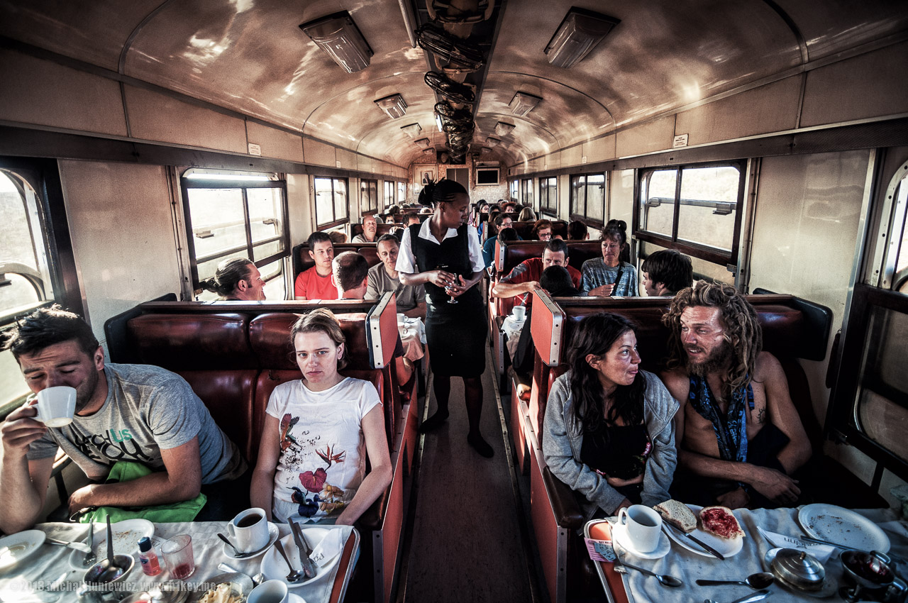 This is one of those legendary train journeys. The route is around 530 km long, and the overnight ride is supposed to take 12 hours, but usually takes more - 7 extra hours in our case. You get to see wild animals outside, and you are fairly well fed, and everything is a bit retro. Unfortunately, in my scrambled eggs I found a snot with a hair attached to it, and that was the end of my eating on this train. Kenya Railways has a tradition of killing its passengers. There have been numerous accidents, and in 1993 this train plunged off a bridge into a river full of crocodiles, resulting in 140 fatalities. Full gallery